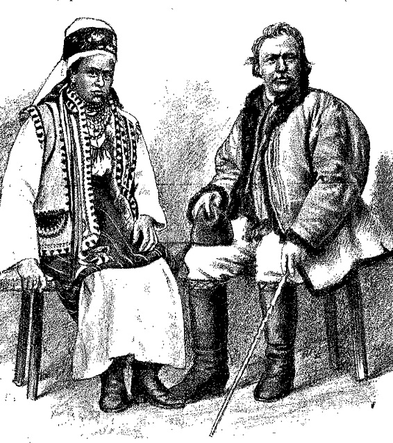 Bukovina